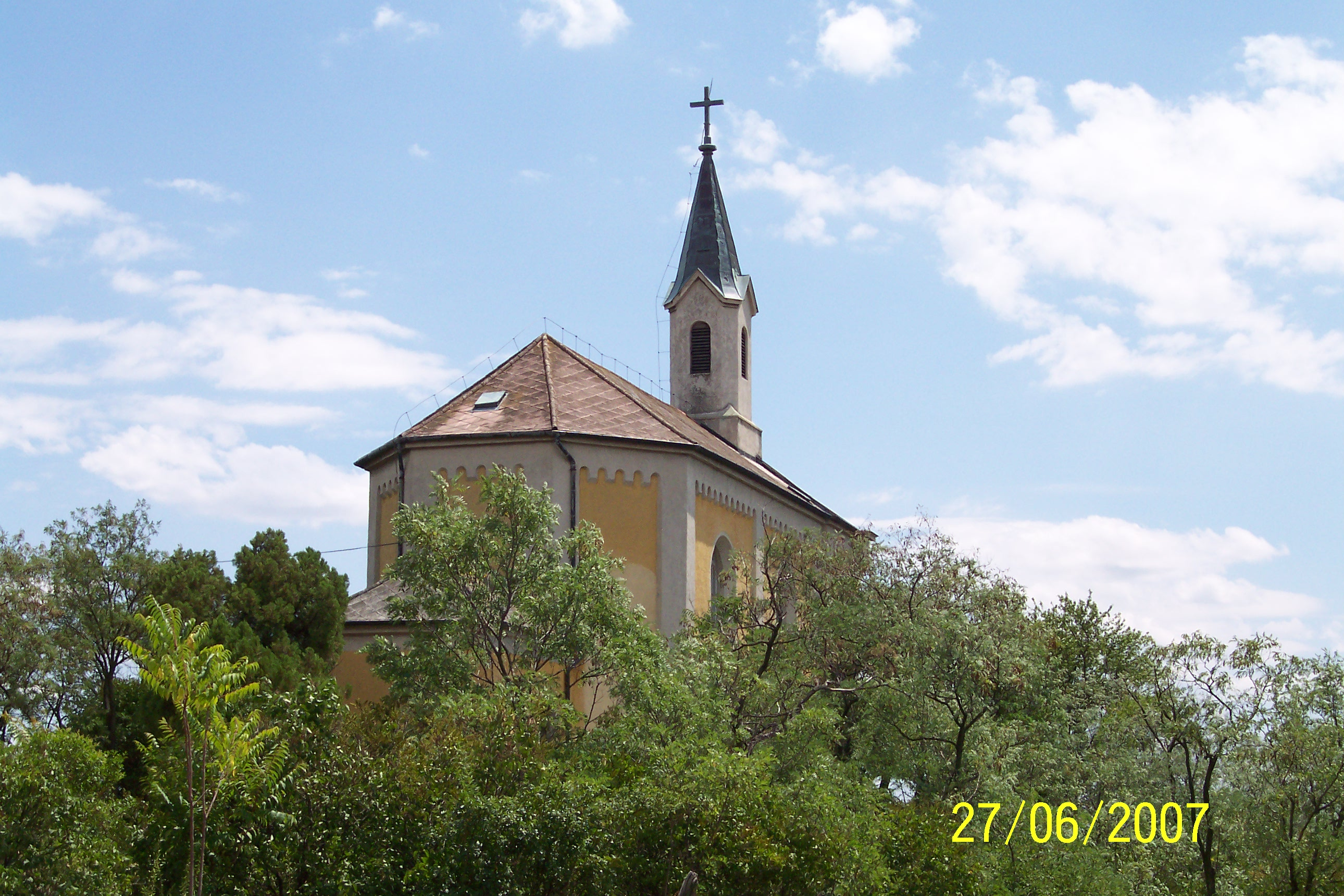 Church of Sukoro